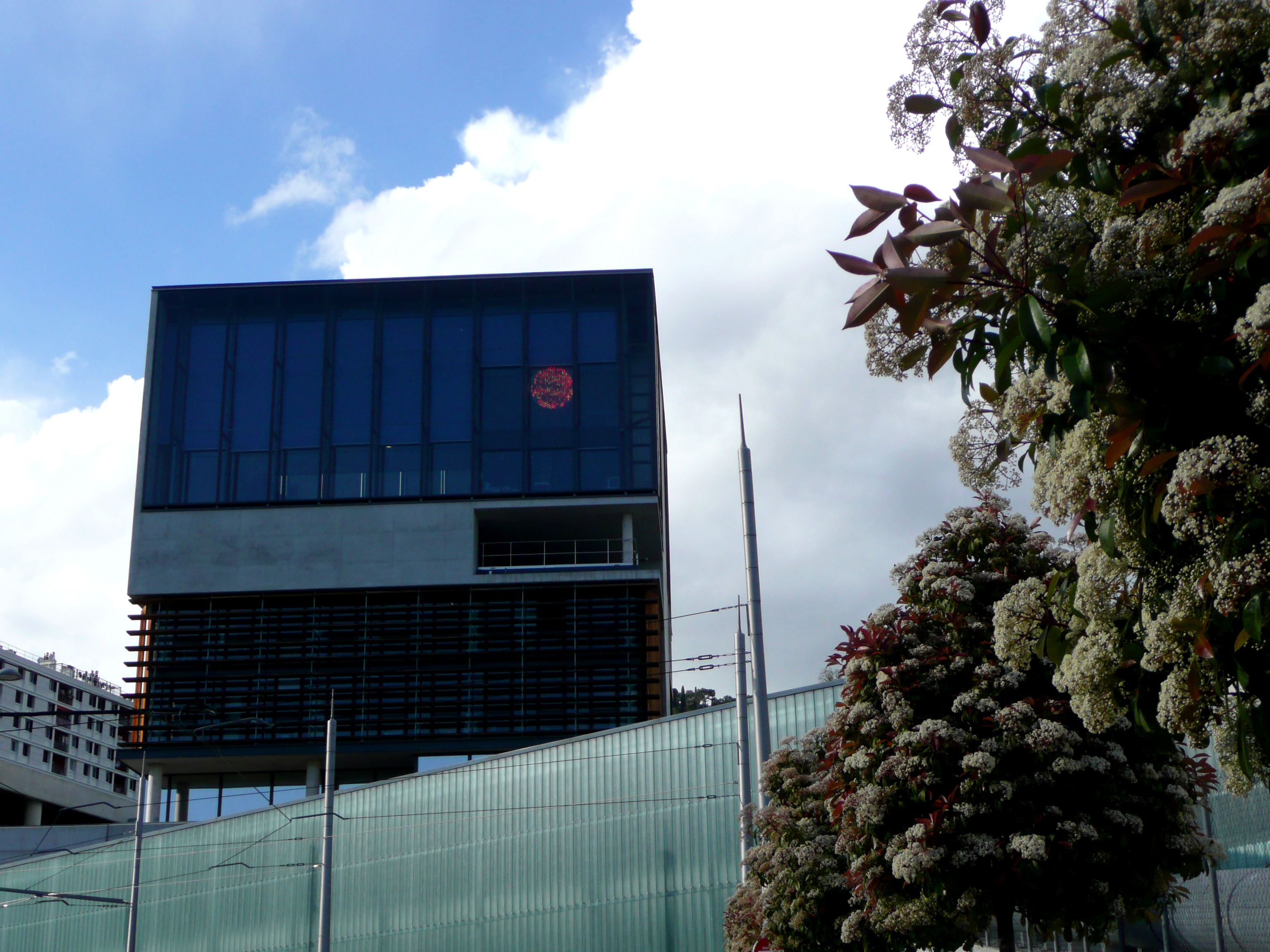 Operational center of the tram in Nice